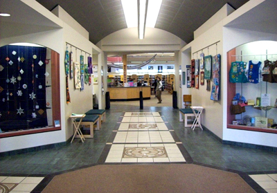 Interior shot of the East Greenbush Community Library